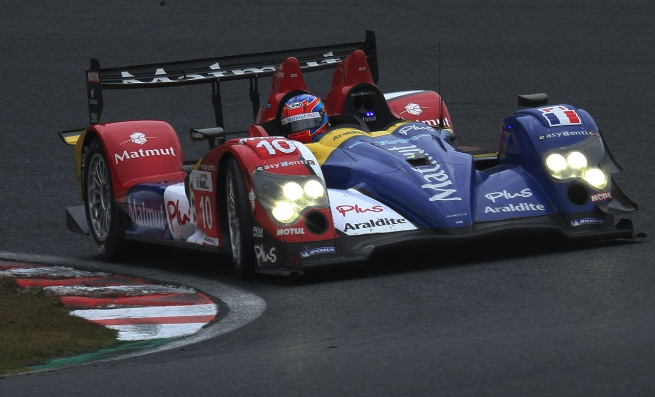 Asian Le Mans Series 2009 1000km of Okayama: Oreca 01 (Team Oreca), driven by Loïc Duval